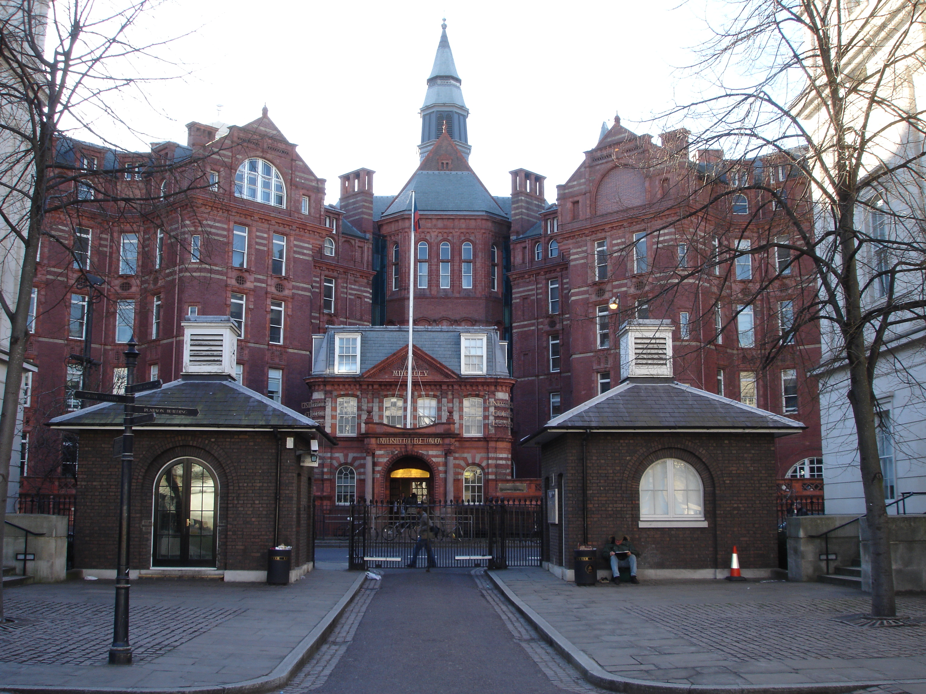 University College London Gower Street entrance.